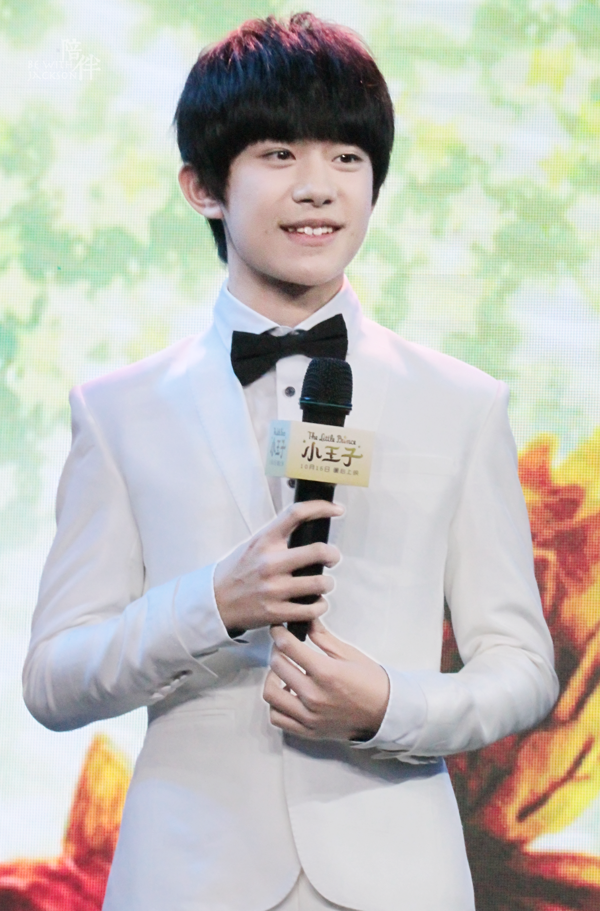 Jackson Yi attended "The Little Prince" premiere on October 13, 2015